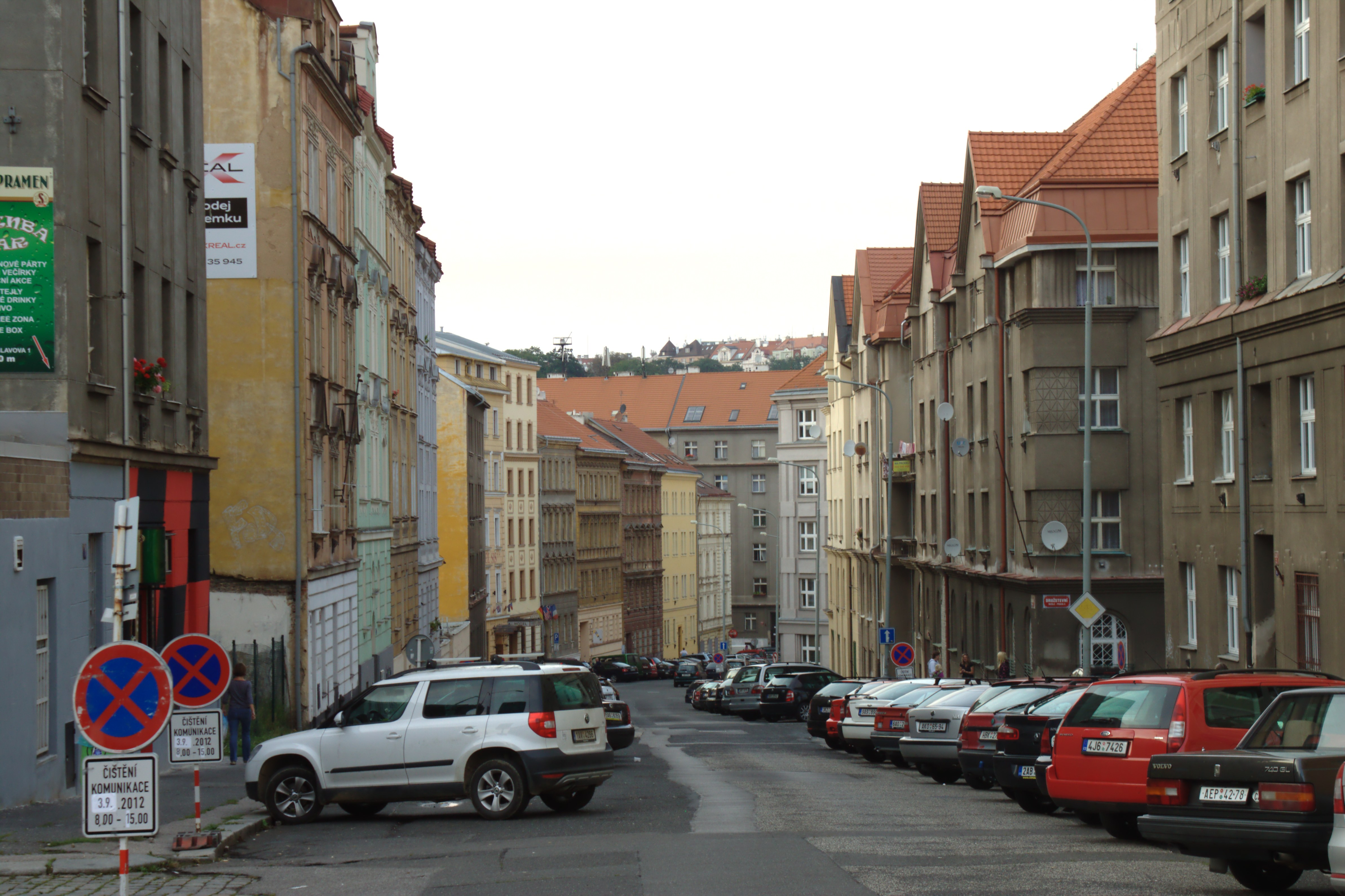 Apartment buildings in Prague-Nusle